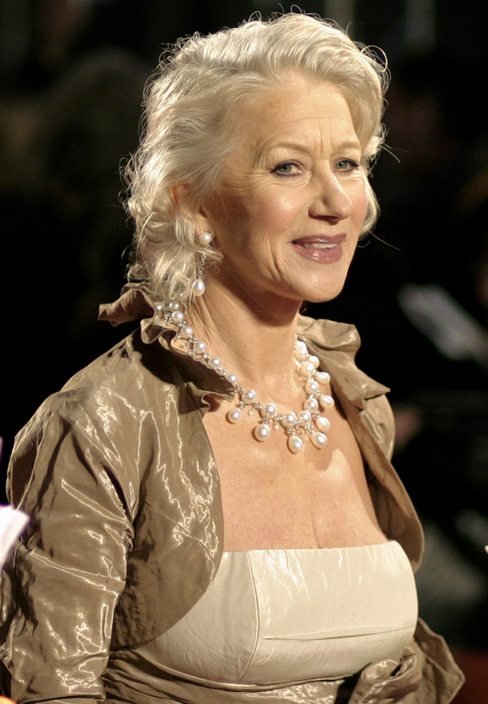 Helen Mirren at the Orange British Academy Film Awards in London's Royal Opera House